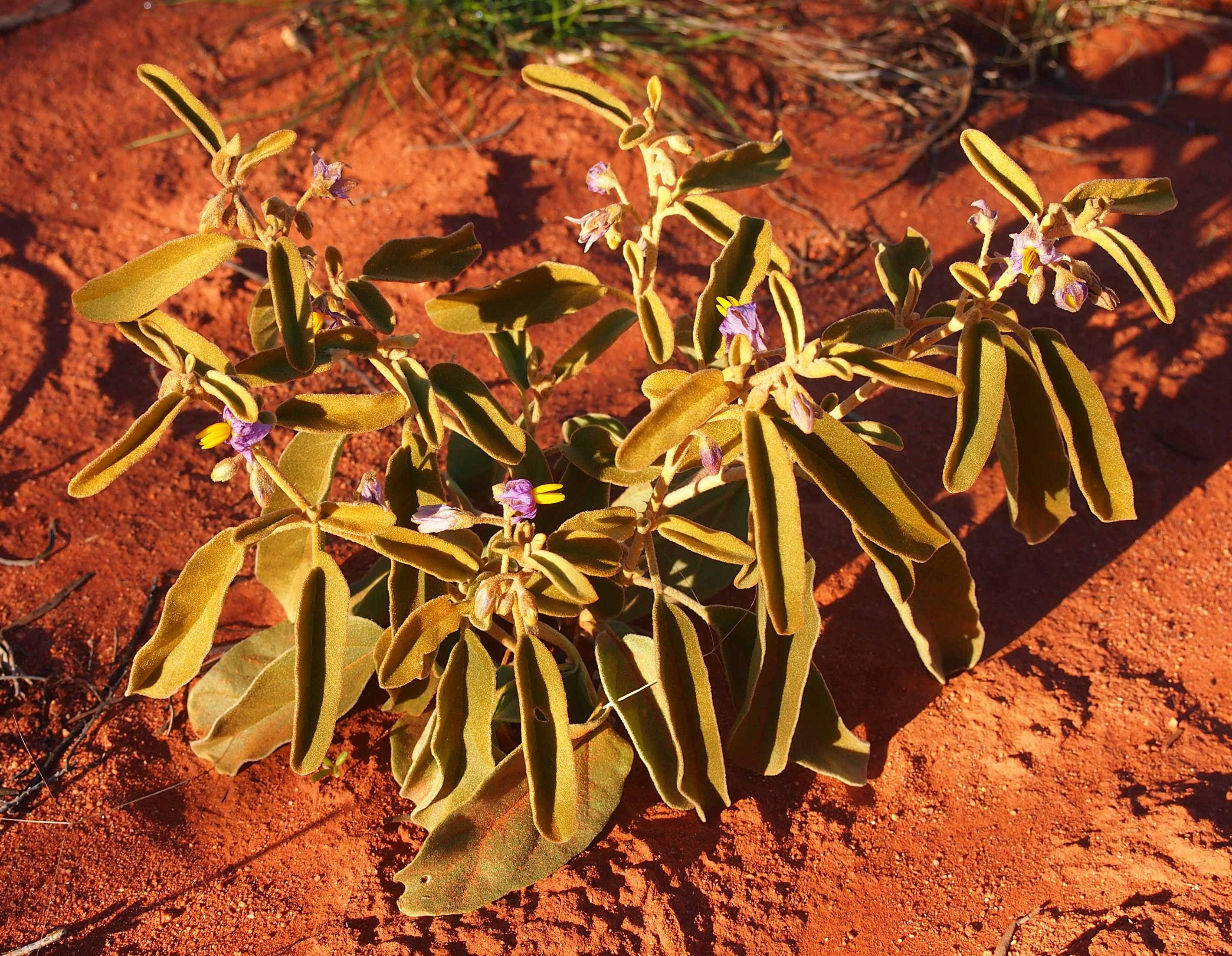 Solanum centrale habit